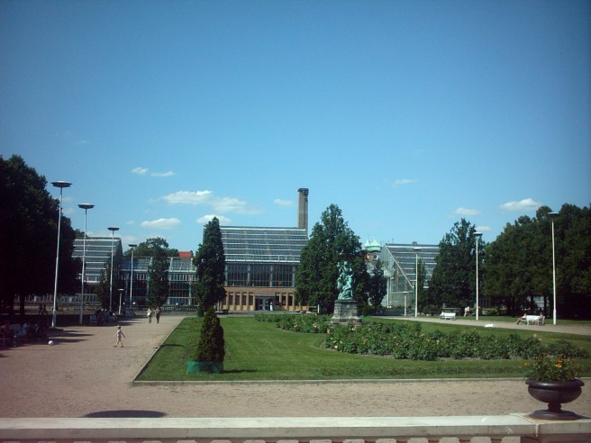 The Palm House in Poznań, Poland